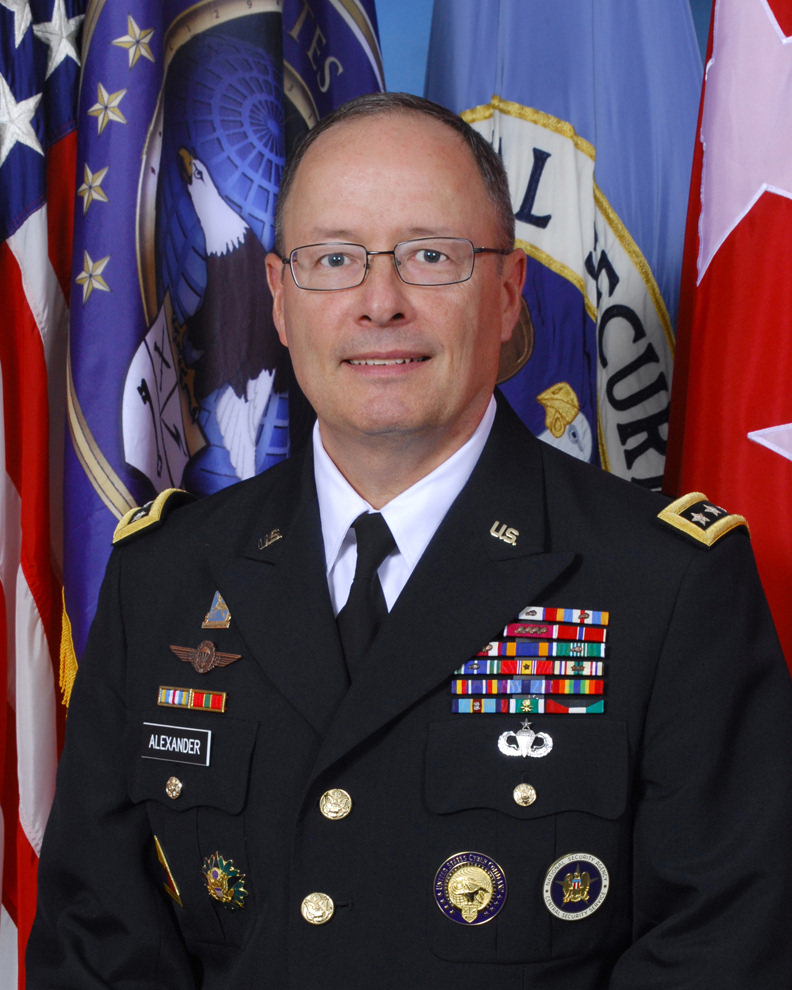 Official photographic portrait of the Director of the National Security Agency (NSA), General Keith B. Alexander, United States Army in Army service uniform.